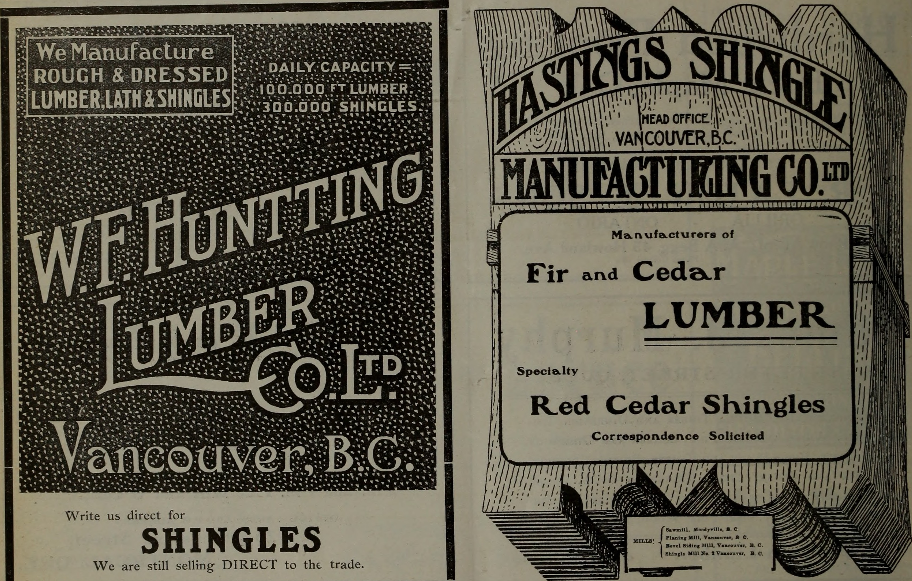 Title: Canadian forest industries 1908 Year: 1908 (1900s) Authors: Subjects: Lumbering; Forests and forestry; Forest products; Wood-pulp industry; Wood-using industries Publisher: Don Mills, Ont. : Southam Business Publications Text Appearing Before Image: 8 CANADA LUMBERMAN AND WOODWORKER Authorized Capital $250,000 (^50,000) and Imperial Timber Trading Co., Ltd P.O. Box 930, Vancouver, B. C. Canada Export Lumber Standing Timber BRITISH COLUMBIA DOUGLAS FIR (Columbian Pine), RED CEDAR and SPRUCE, ALASK A PINE, CYPRESS and CALIFORNIA REDWOOD (Sequoia). Can be shipped in Small Parcels. Straight or Mixed Cargoes JAS. PLAYFAIR D. L. WHITE PLAYFAIR & WHITE Manufacturers and Wholesale Dealers Lumber â Lath â Shingles MIDLAND, ONT, Contractors for Railway Supplies BILL TIMBER a Specialty- Text Appearing After Image: Write us direct for SHINGLES We are still selling DIRECT to the trade QUEBEC SPRUCE is recognized as the BEST that can be obtained anywhere WRITE US FOR QUOTATIONS H. R. GOODDAY 6 CO. Quebec Knowles & O'Neill WHOLESALE Lumber, Ties, Pulpwood Etc. Complete Stock of Quebec Spruce and Pine Lumber Always on Hand An exceptionally nice lot of 2" Pine, well seasoned, for sale, also 1", 2", 3" Spruce, Square and Waney Spruce and Cedar. Correspondence Solicited. Hochela^BankVi.din, QuebeC, QuC